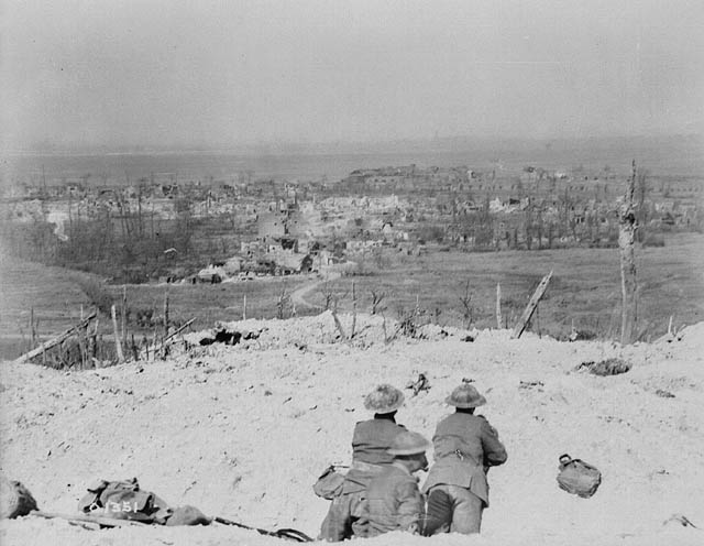 View over the crest of Vimy Ridge showing the village of Vimy, which was captured by Canadian troops.